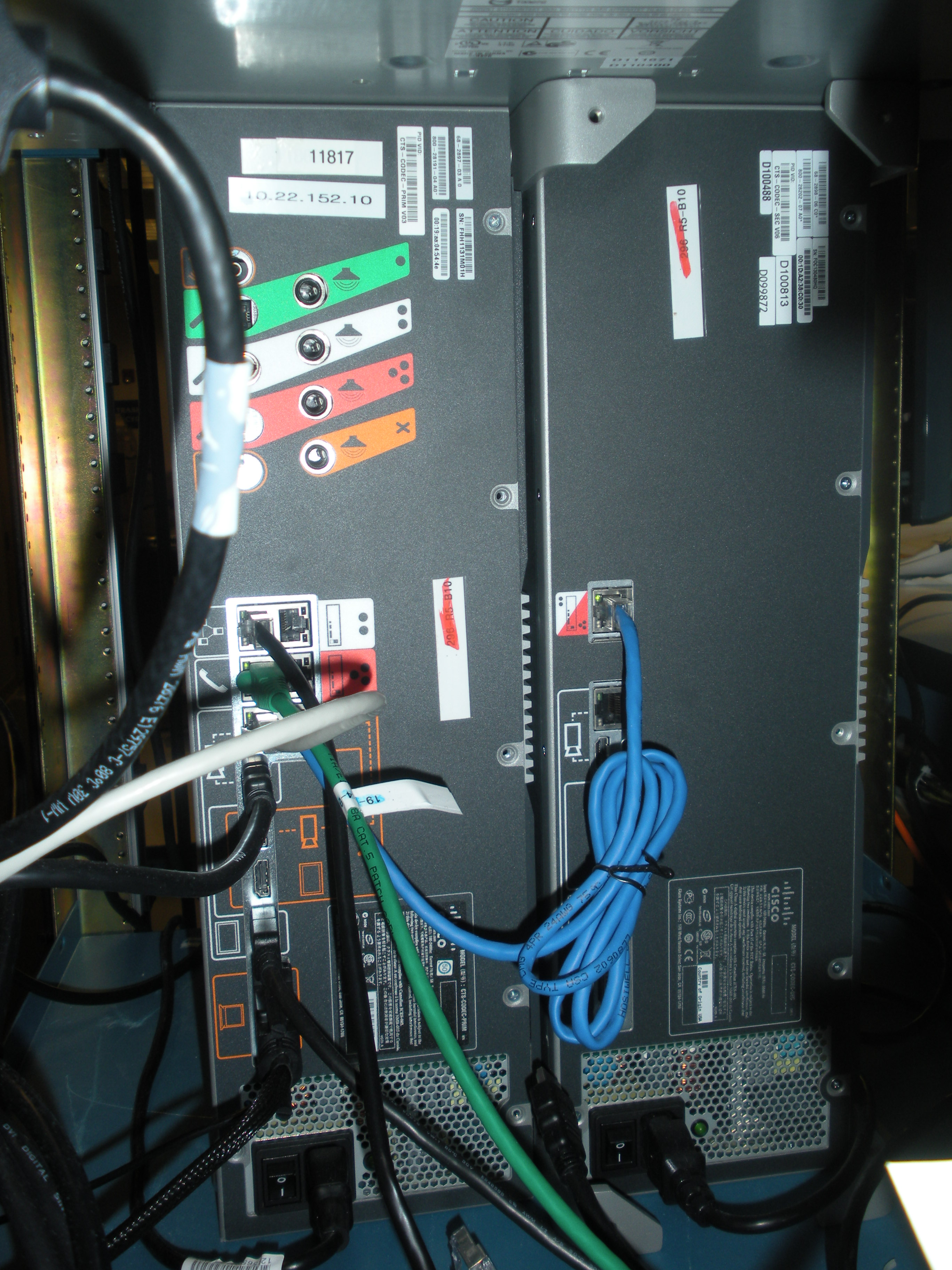 These are codecs used in a Cisco TelePresence System. The one on the left is the primary codec, while the one on the right is a secondary codec. This image is also available at